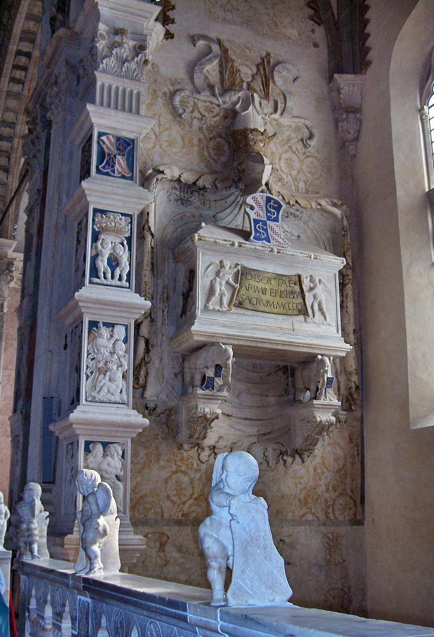 Tomb of Isotta degli Atti; Chapel of the Angels; the Malatesta Temple, Rimini, Italy